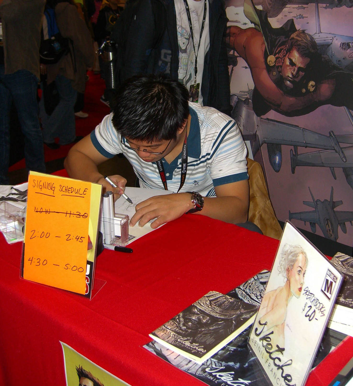 Comics creator Leinil Francis Yu during an October 16, 2011 appearance at the New York Comic Con in Manhattan. This photo was created by Luigi Novi. It is not in the public domain, and use of this file outside of the licensing terms is a copyright violation.